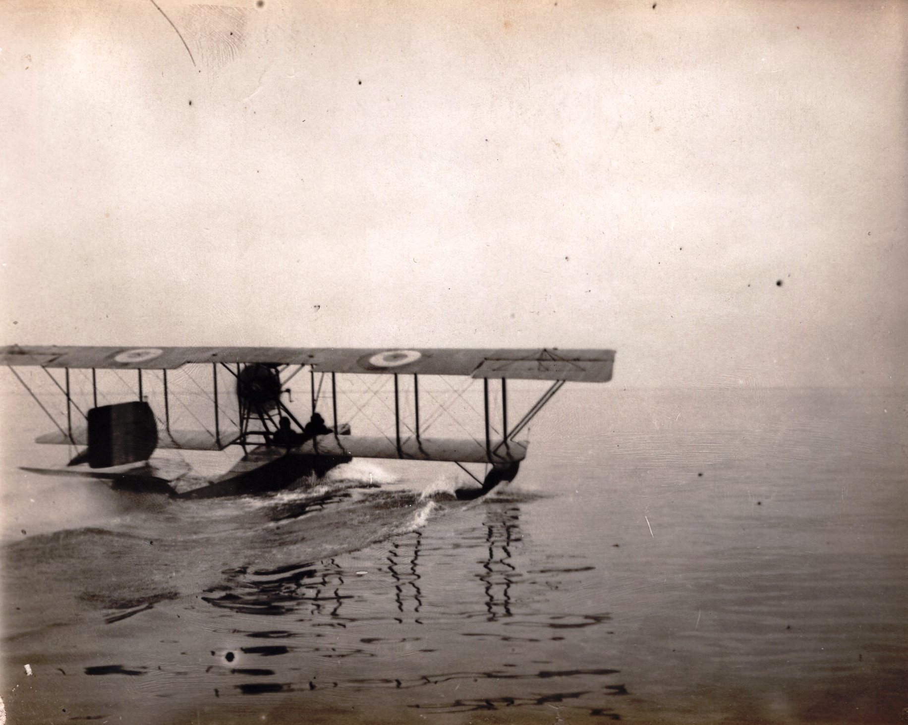 Landing hydro plane in Thessaloniki port This media file is produced by Wikipedian in Residence in Category:Wikipedian in Residence at DARM in 2016.